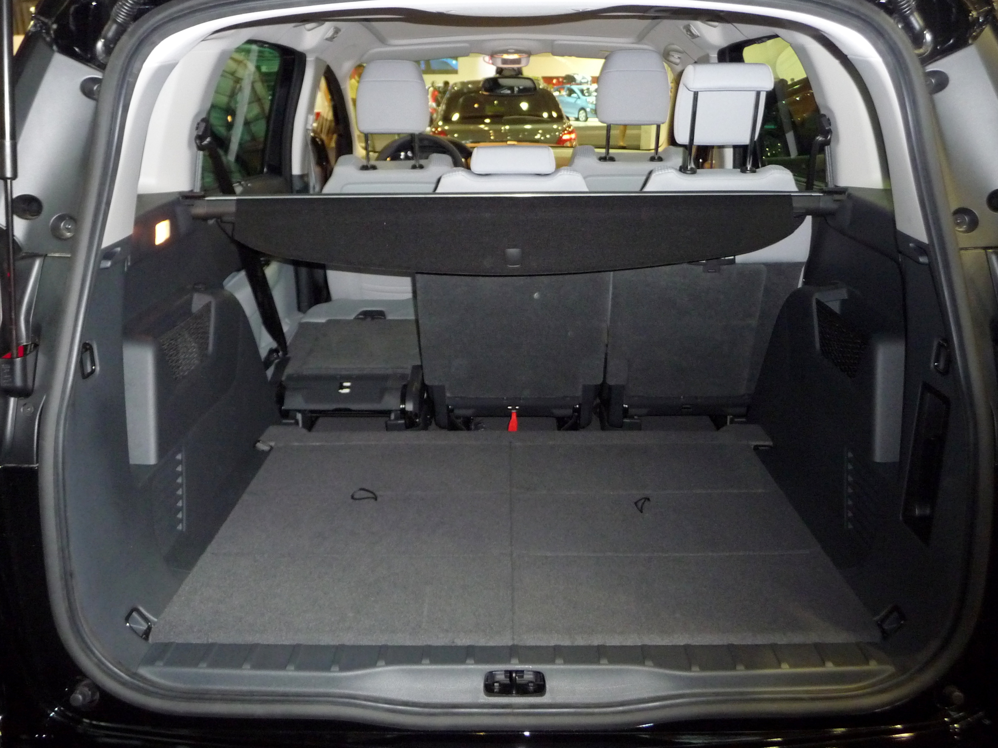 Peugeot 5008, Autosalon Brno 2011, The Brno Exhibition Grounds -10 -5 -3 -2 ◄ ► +2 +3 +5 +10